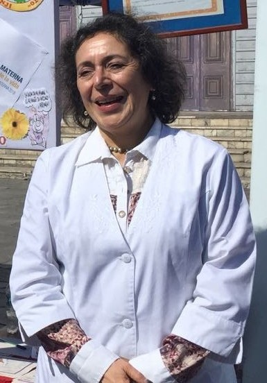 Cropped photo of Gloria Burgos as Undersecretary of Assistance Networks on August 7, 2018 in Iquique